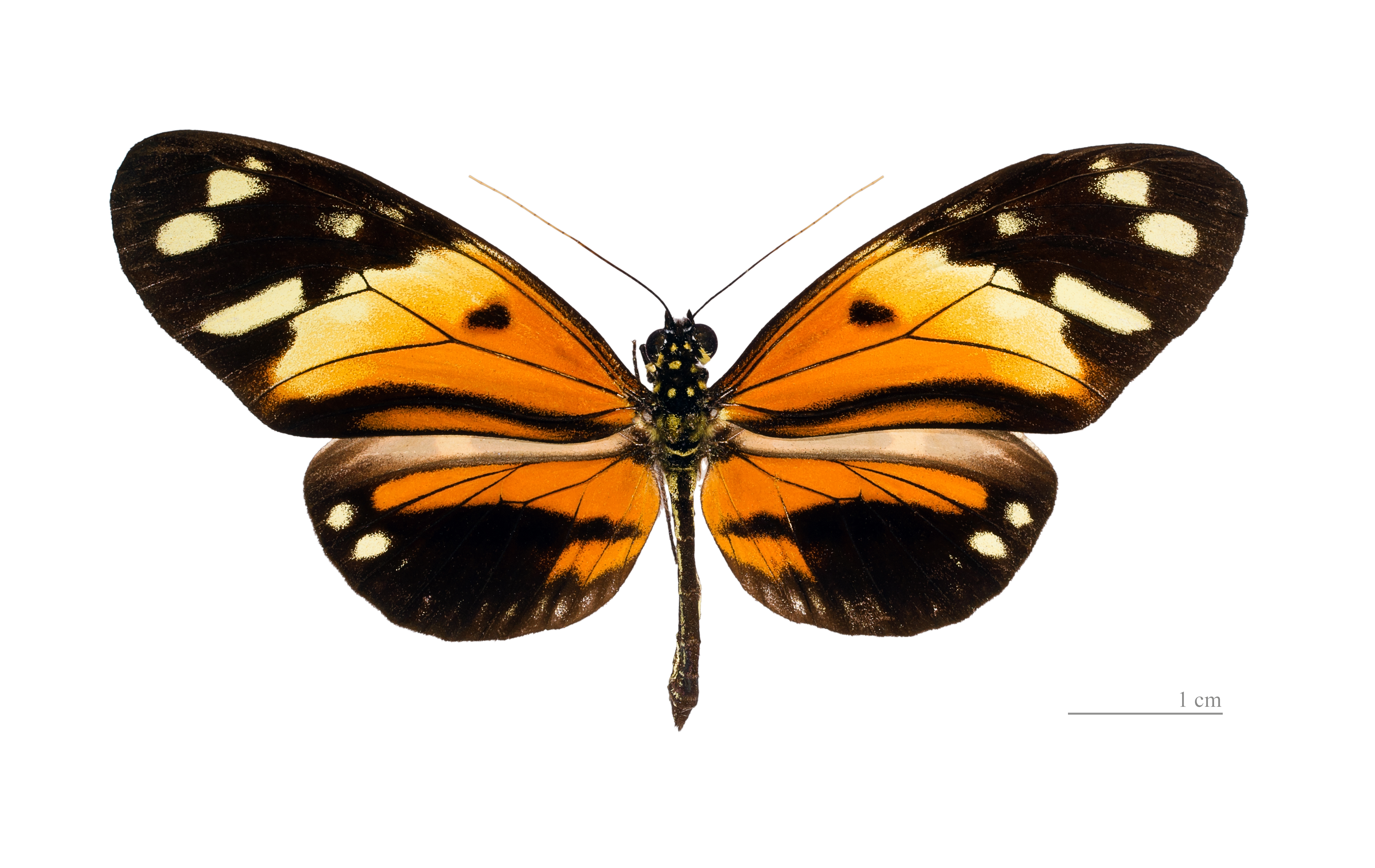 Dorsal side